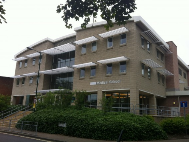 School main building